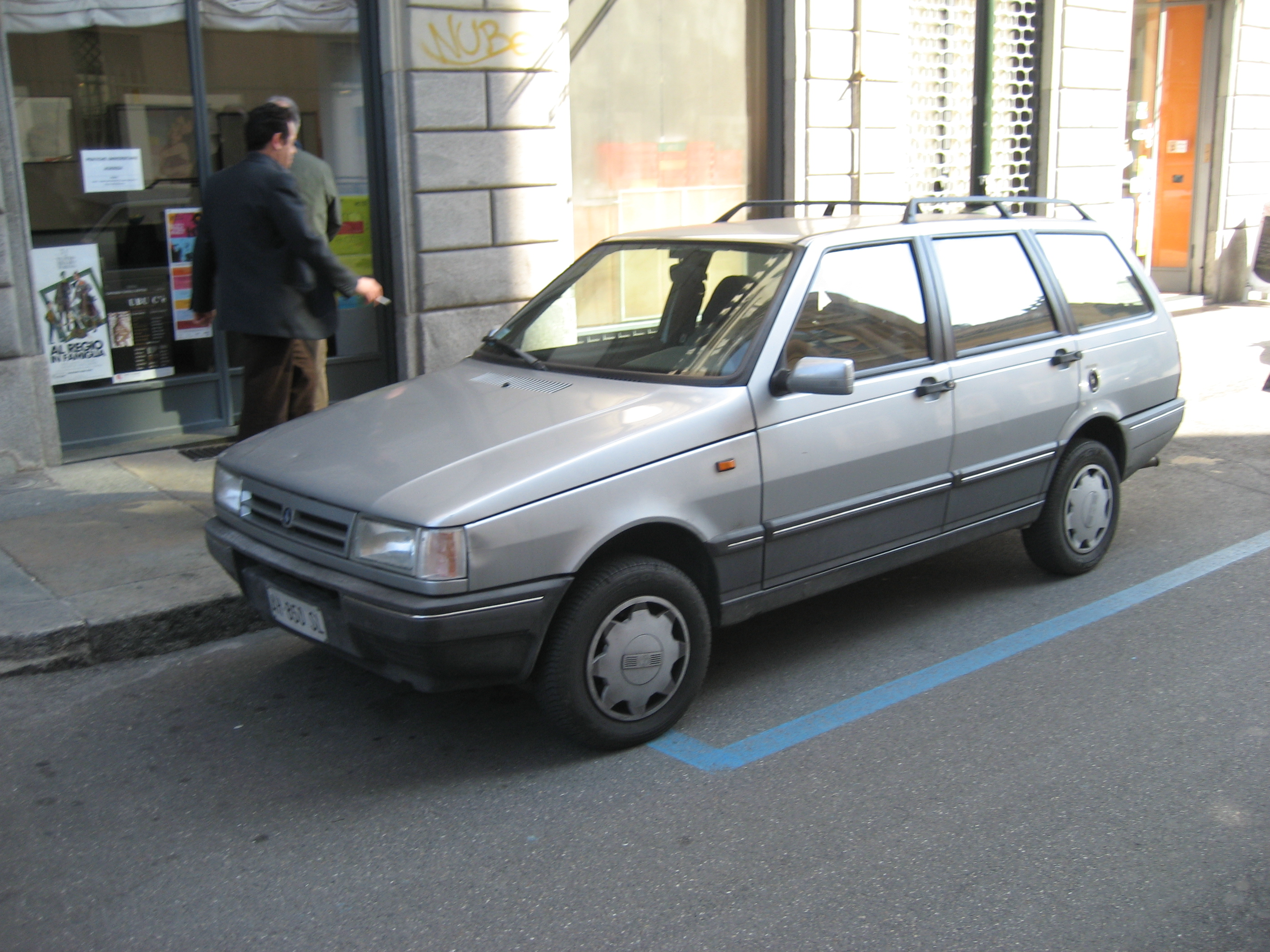 An Innocenti Elba in Turin, 2007. Bazed on Fiat Elba.